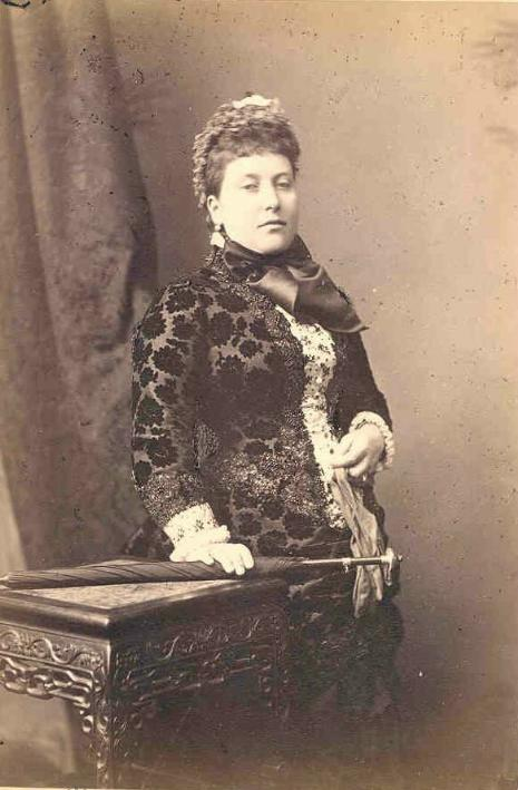 Photographie de Helena de Saxe-Cobourg-Gotha (1846–1923)